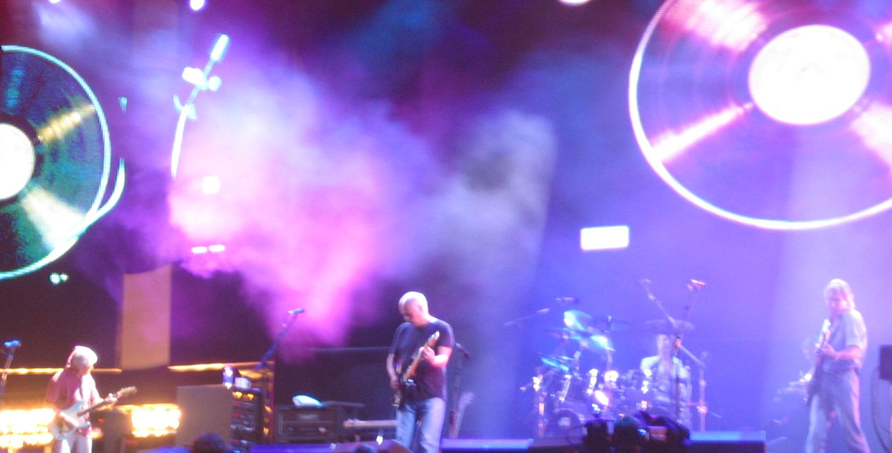 Pink Floyd performing at Live 8 in London